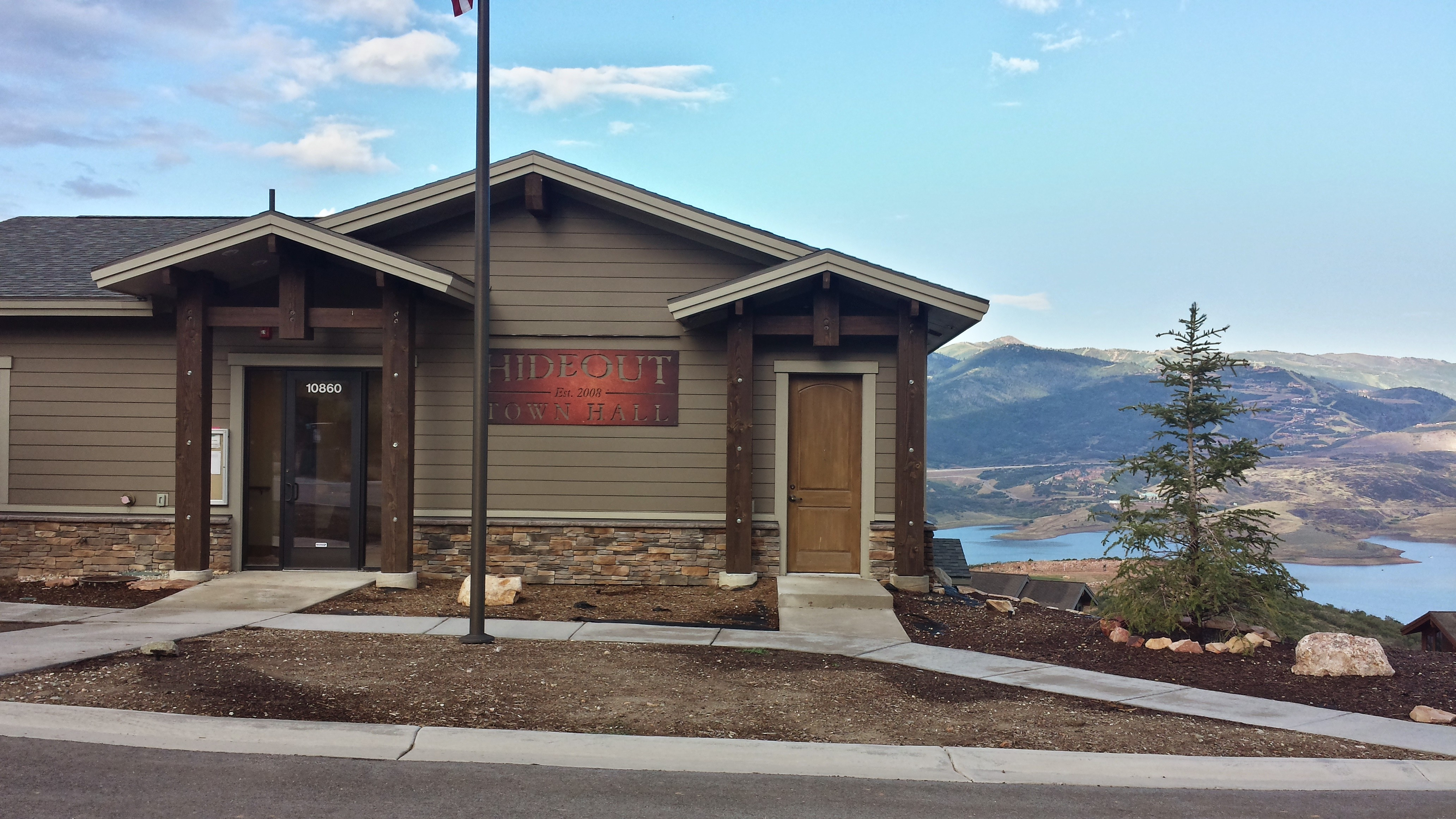 Hideout Town hall, located in Hideout, Utah